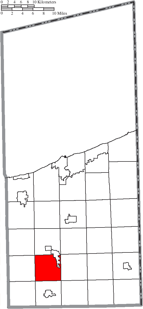 Map of the municipal and township boundaries of Ashtabula County, Ohio, United States, as of the 2000 census, with the location of Rome Township highlighted. Township borders are shown only in unincorporated areas in order to differentiate incorporated and unincorporated areas more clearly.